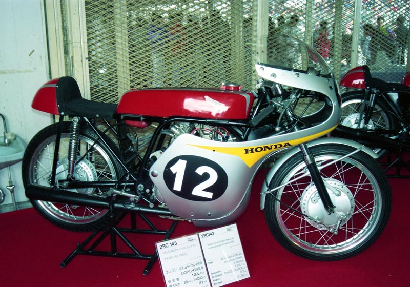 1961 Honda 2RC143